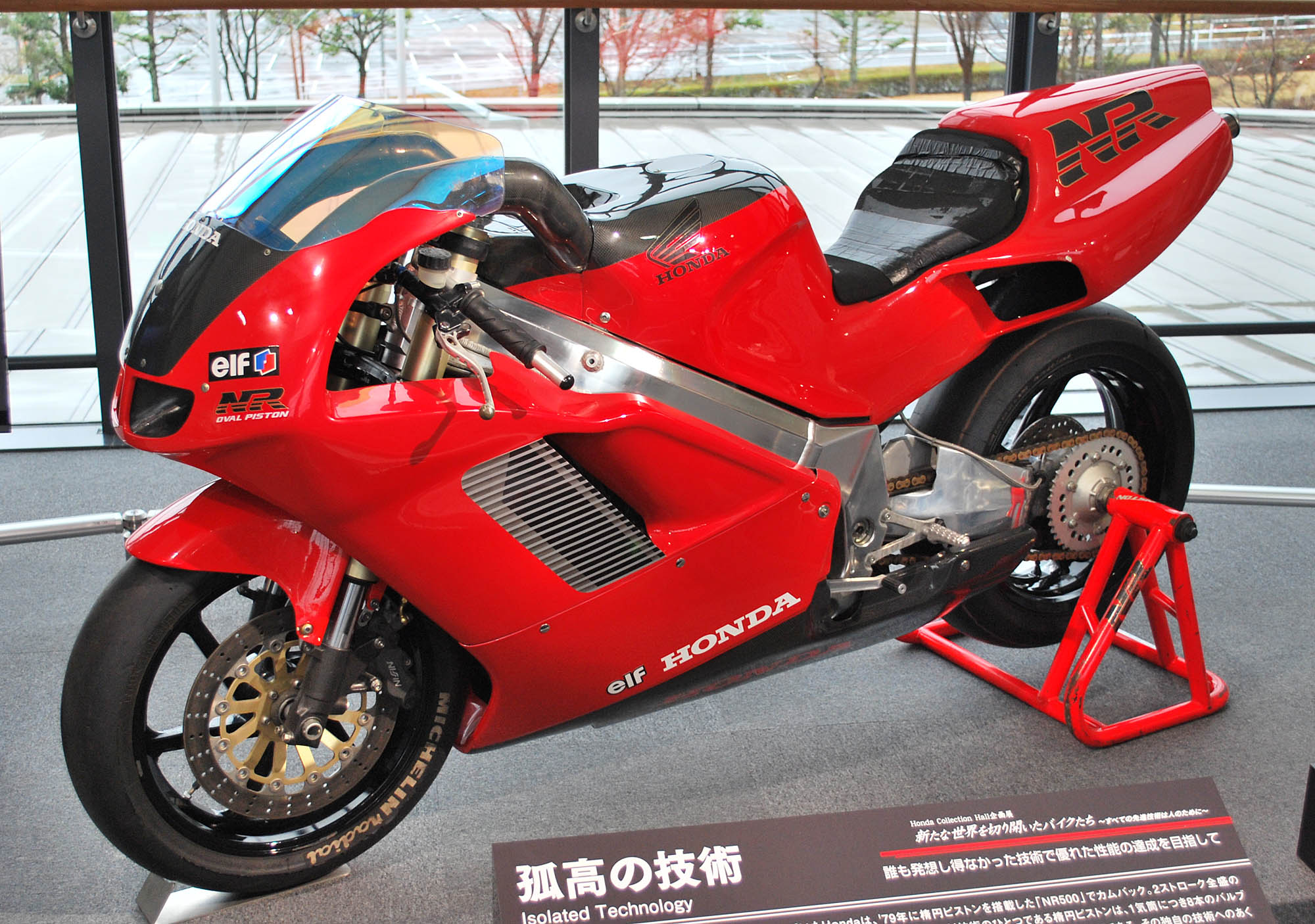 Honda NR750 Record Breaker (1993)